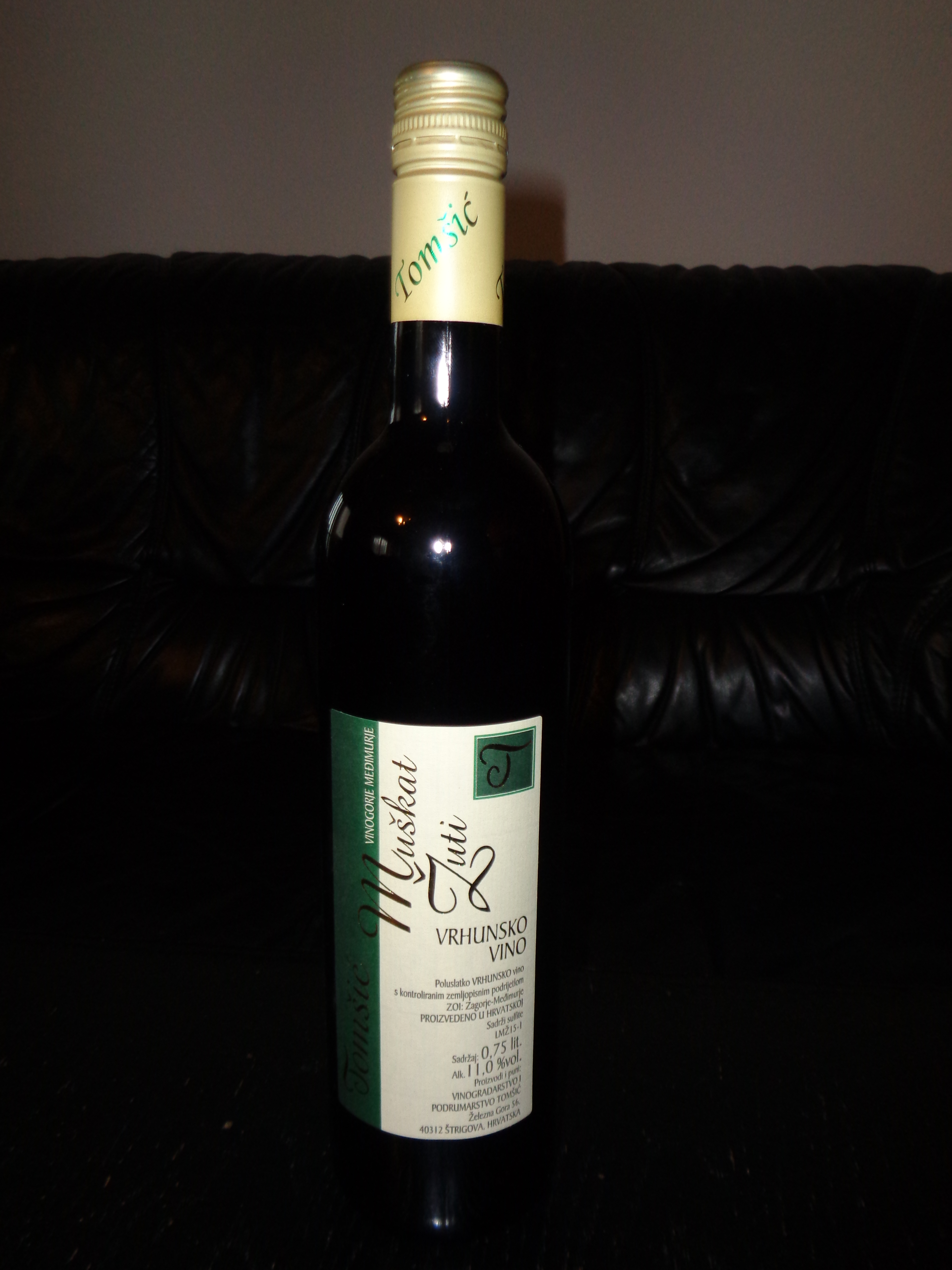 A bottle of Yellow muscat wine, halfsweet superior quality white wine with controlled geographical origin, produced in Medjimurie wine growing subregion, northern Croatia